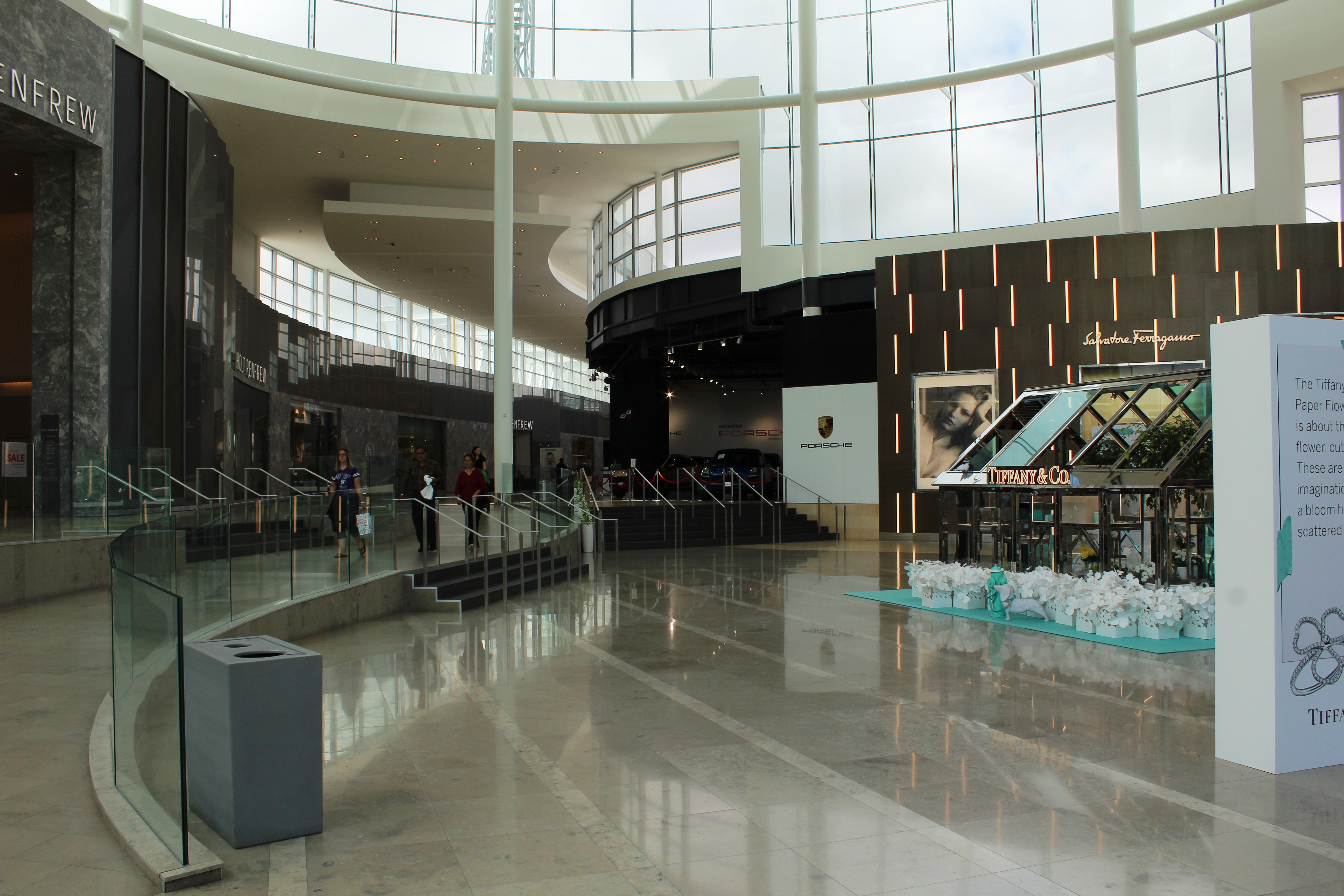 Square One Shopping Centre, Mississauga. Entrance lobby.